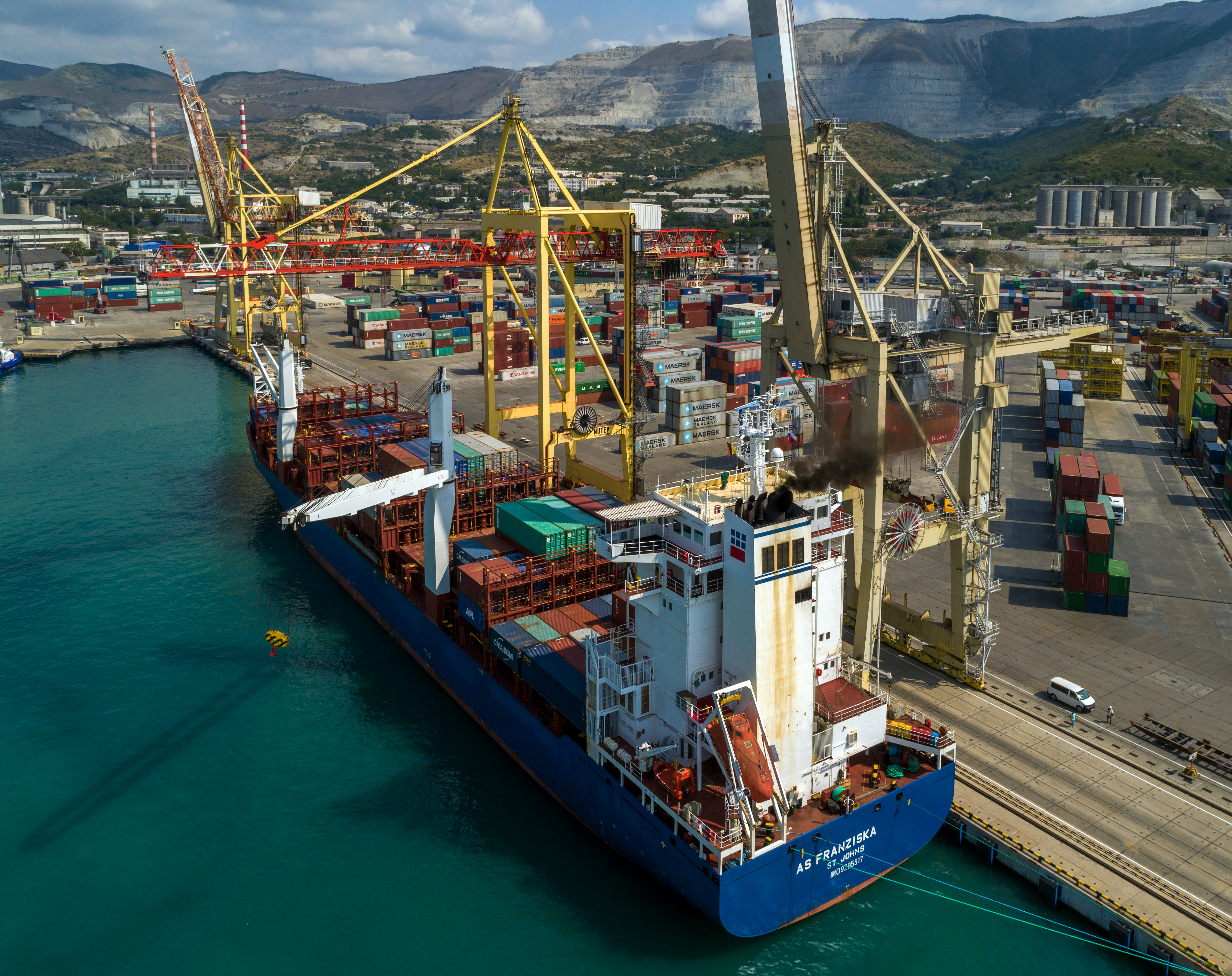 Cranes and vessel